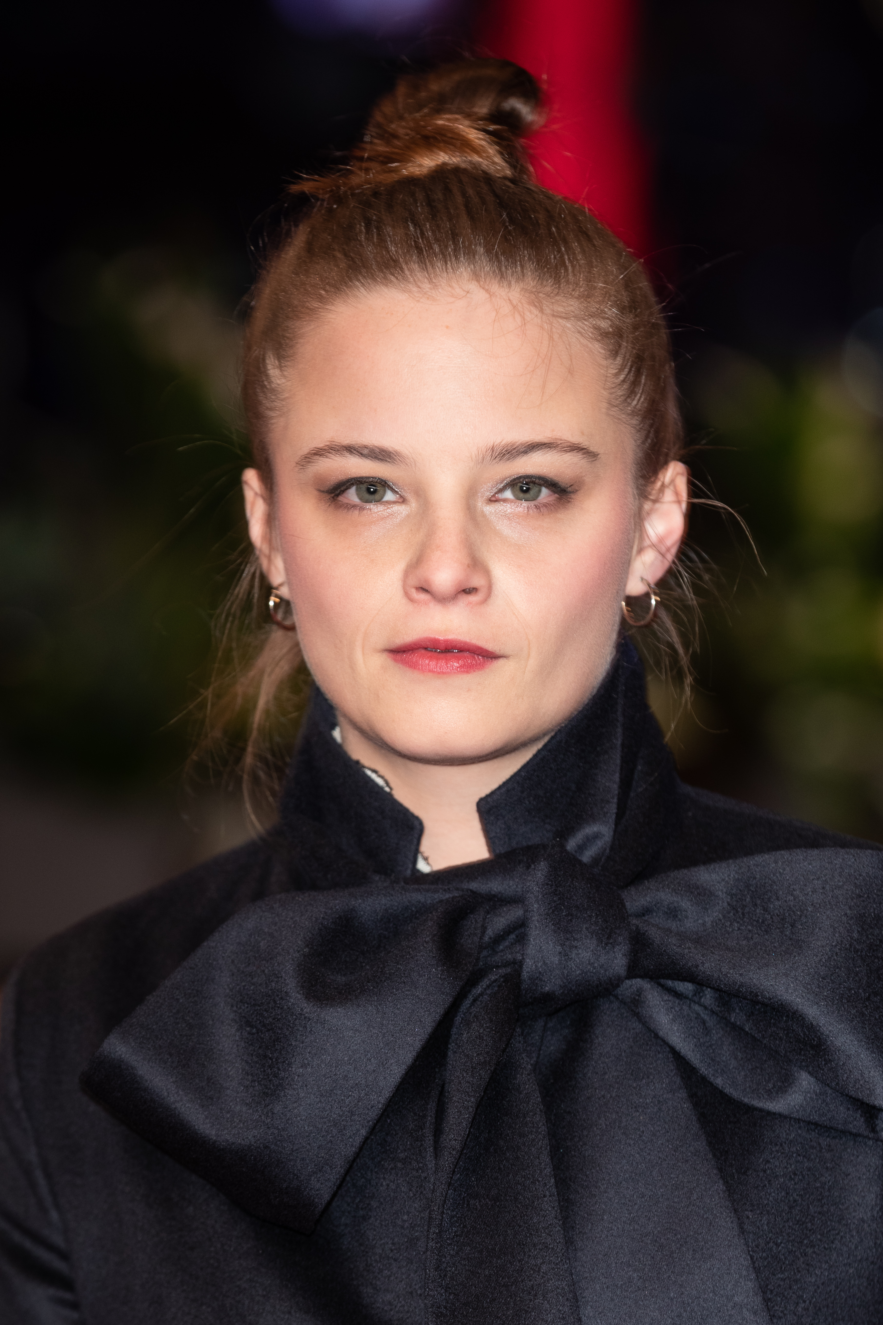 Jasna Fritzi Bauer at the Berlinale 2020